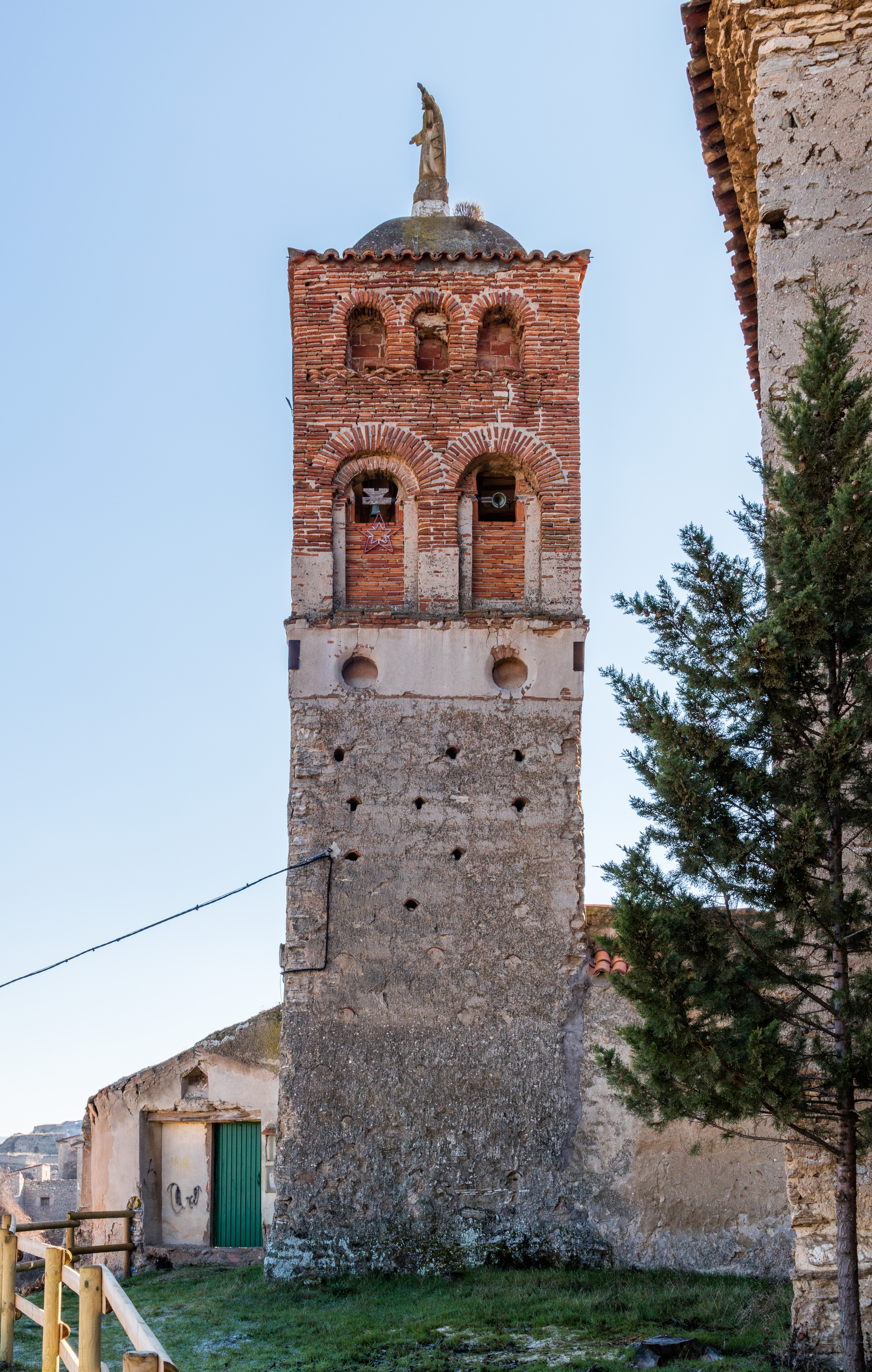 Tower of the hermitage of Our Lady of the Castle, Belmonte de Gracián, Saragossa, Spain